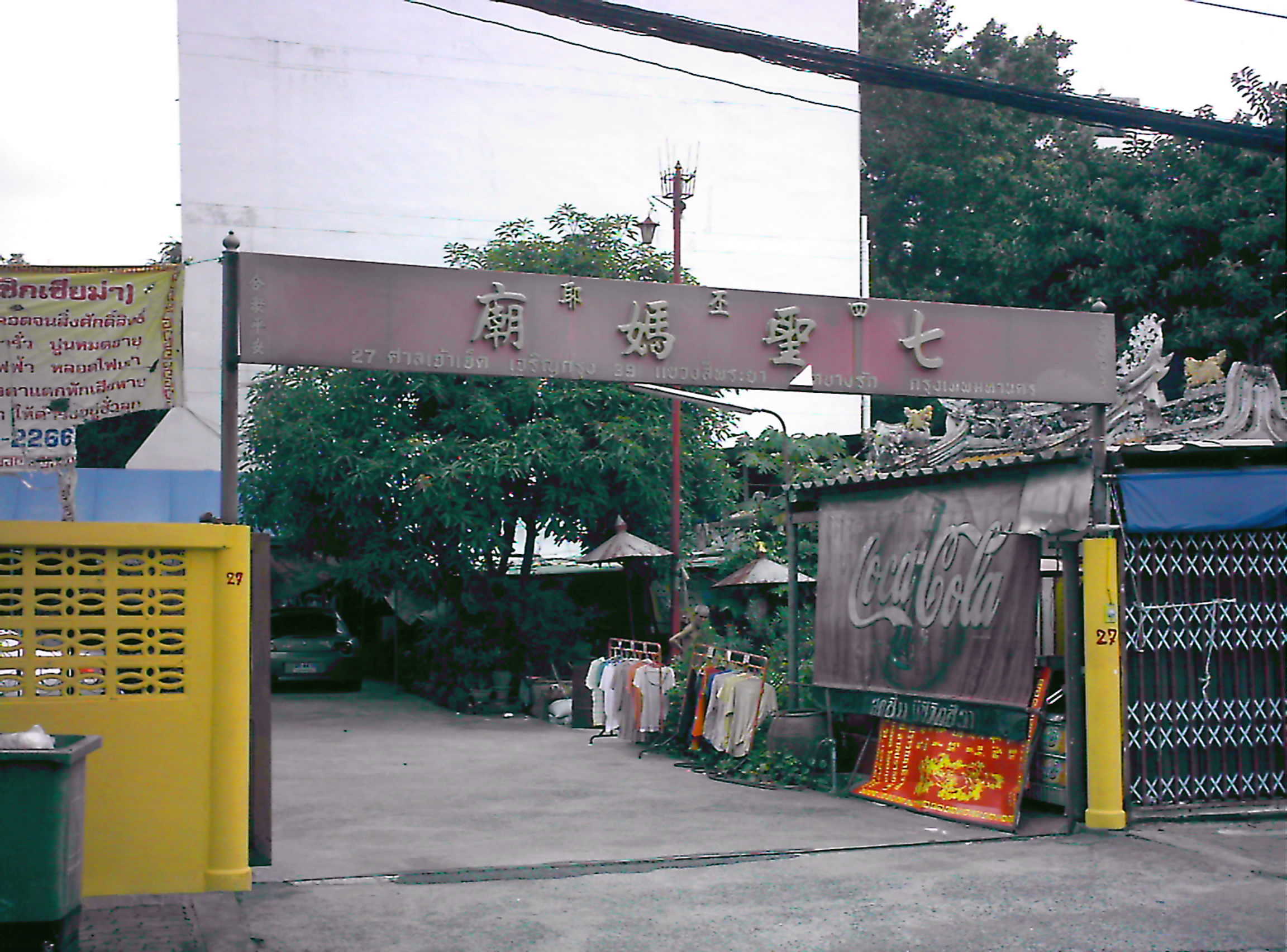 Side Gate of Tin Hau Tample at 27 Soi San Chao Chet, Soi 39 Charoen Krung Road, Bangkok 10500 中文（香港）: 曼谷大京都，挽叻縣，石龍軍路39街27號的側門。主祀媽祖的七聖媽廟